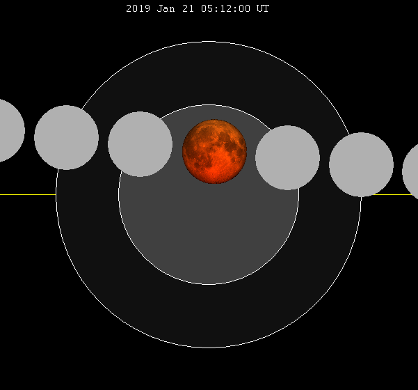 January 2019 lunar eclipse chart of moon's path through the earth's shadow. thumb